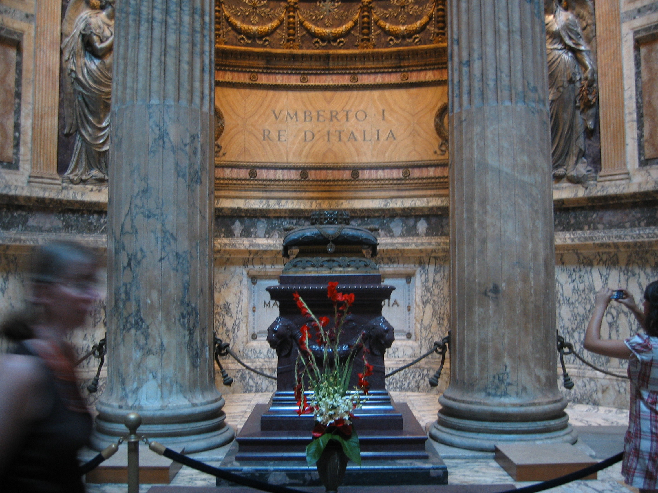 An image of the tomb of Umberto I in the Pantheon, in Rome, Italy.